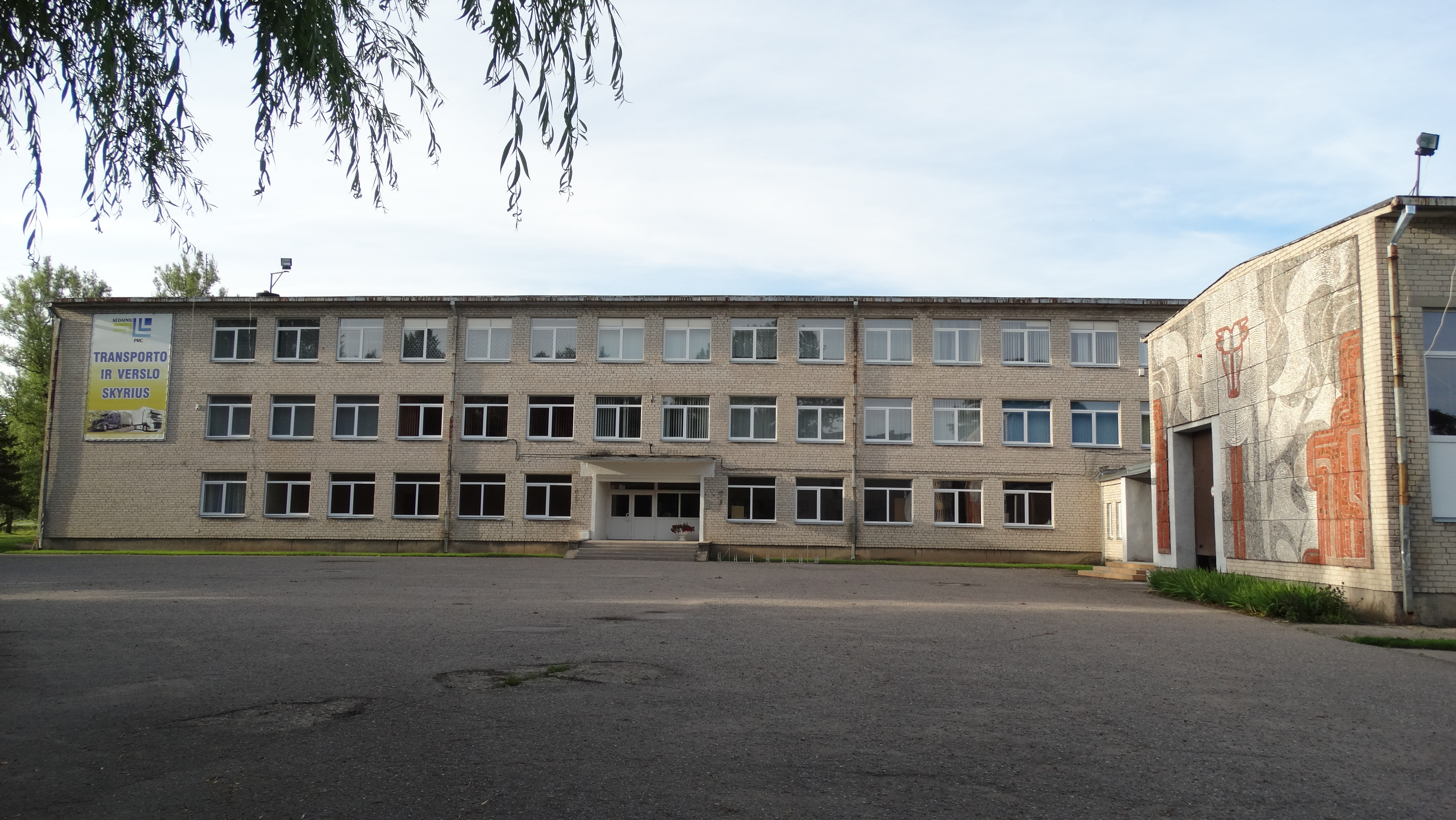 Vocational training centre, Lančiūnava, Kėdainiai District, Lithuania